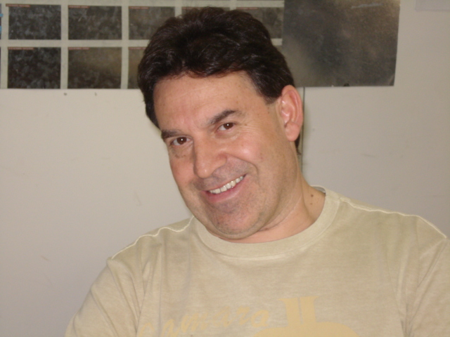 Brazilian film director Lucas Amberg